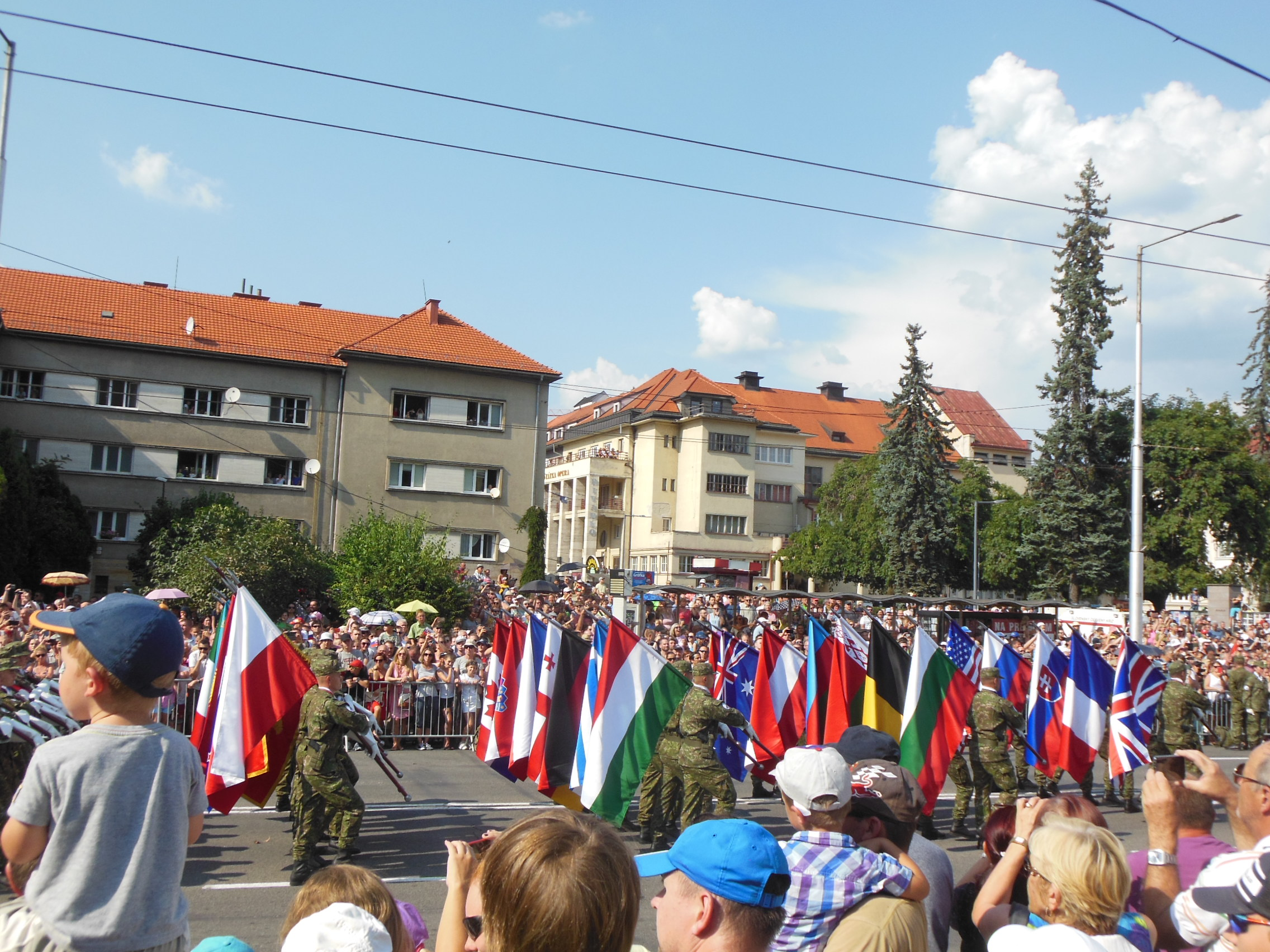 75th Anniversary of the Slovak National Uprising Celebrations in Banská Bystrica, Slovakia. Military parade at Štadlerovo nábrežie and Národná ulica.